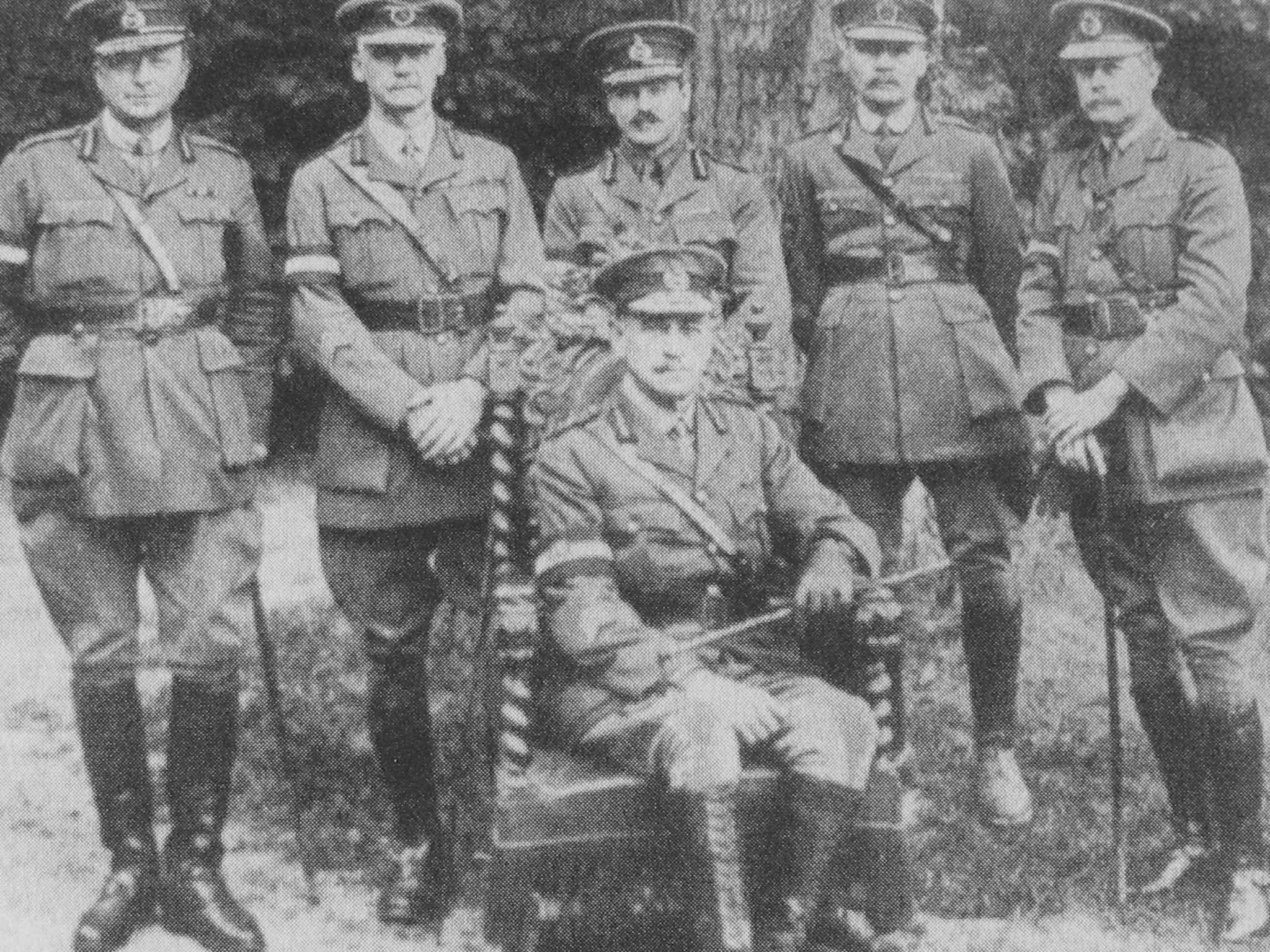 General John Monash Headquarters on Saint-Gratien (Somme) castle. In front : Sir John Monash. From left to right : Brigadiers C.H. Foot R.A. Carruthers T.A. Blamey L.D. Fraser W.A. Coxen